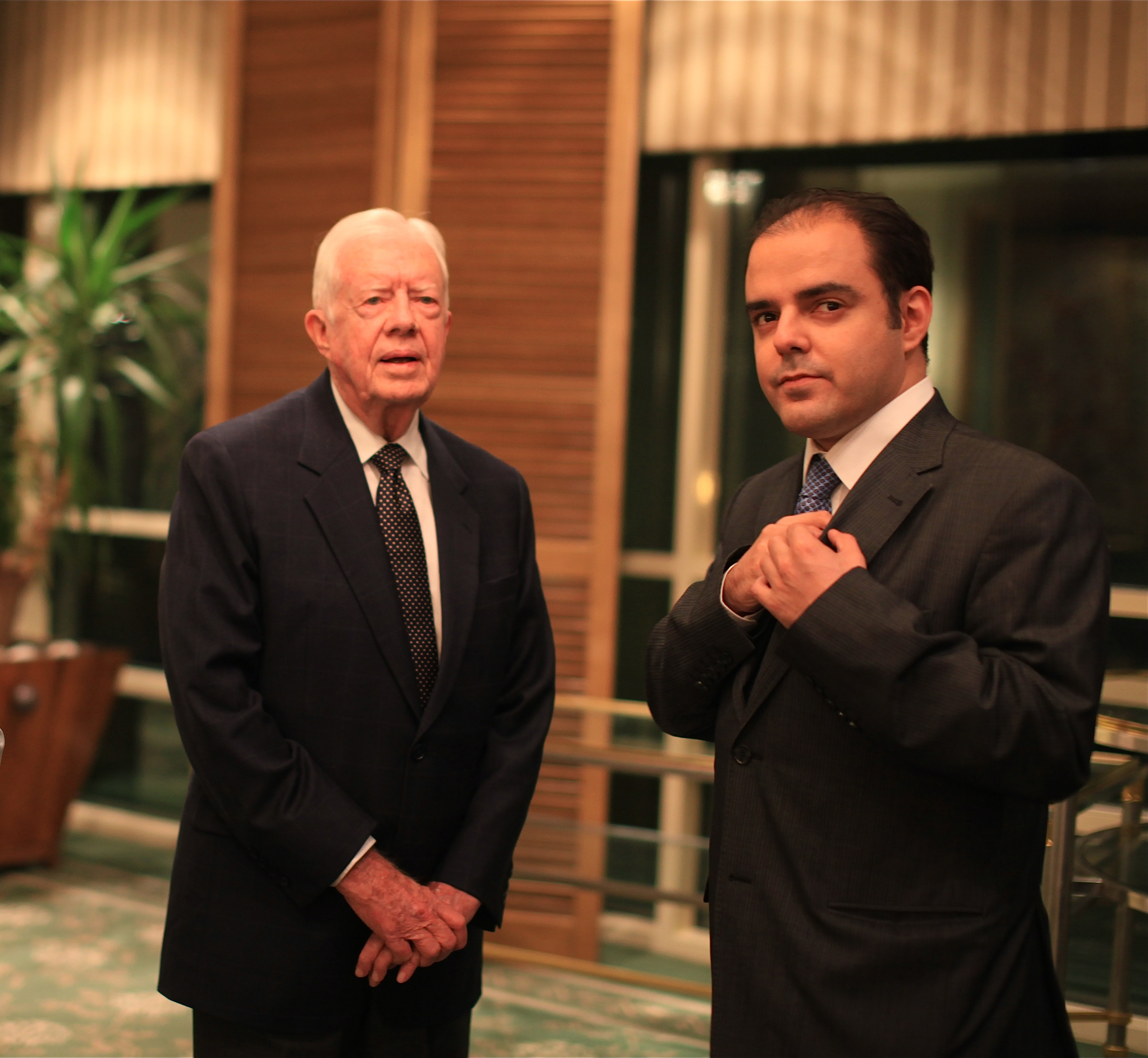 Sami Moubayed with US President Jimmy Carter - October 8, 2010